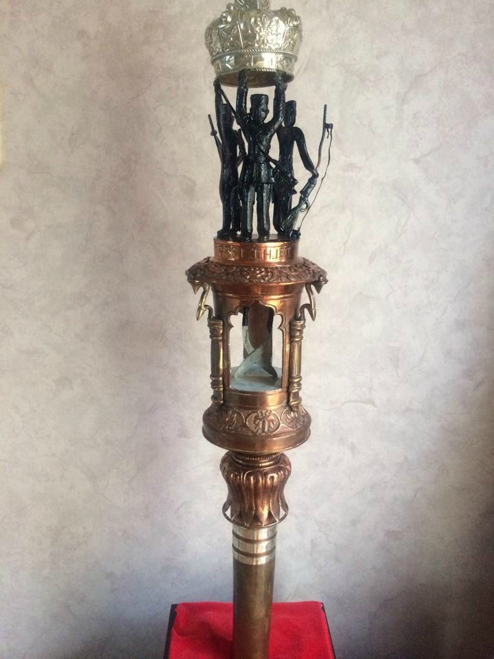 Replica of regimental staff of Sirmoor Rifles (2nd Gurkha Rifles)